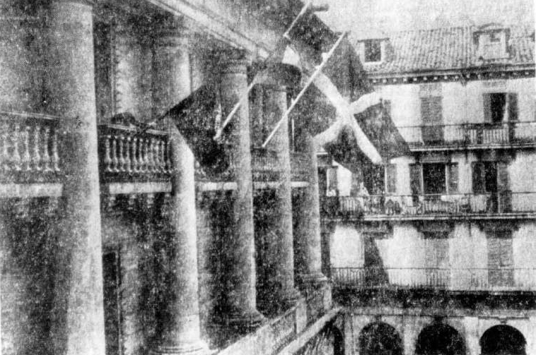 Ikurrina or Basque Flag in Donostia-San Sebastian Town Hall, Basque Country, 1932